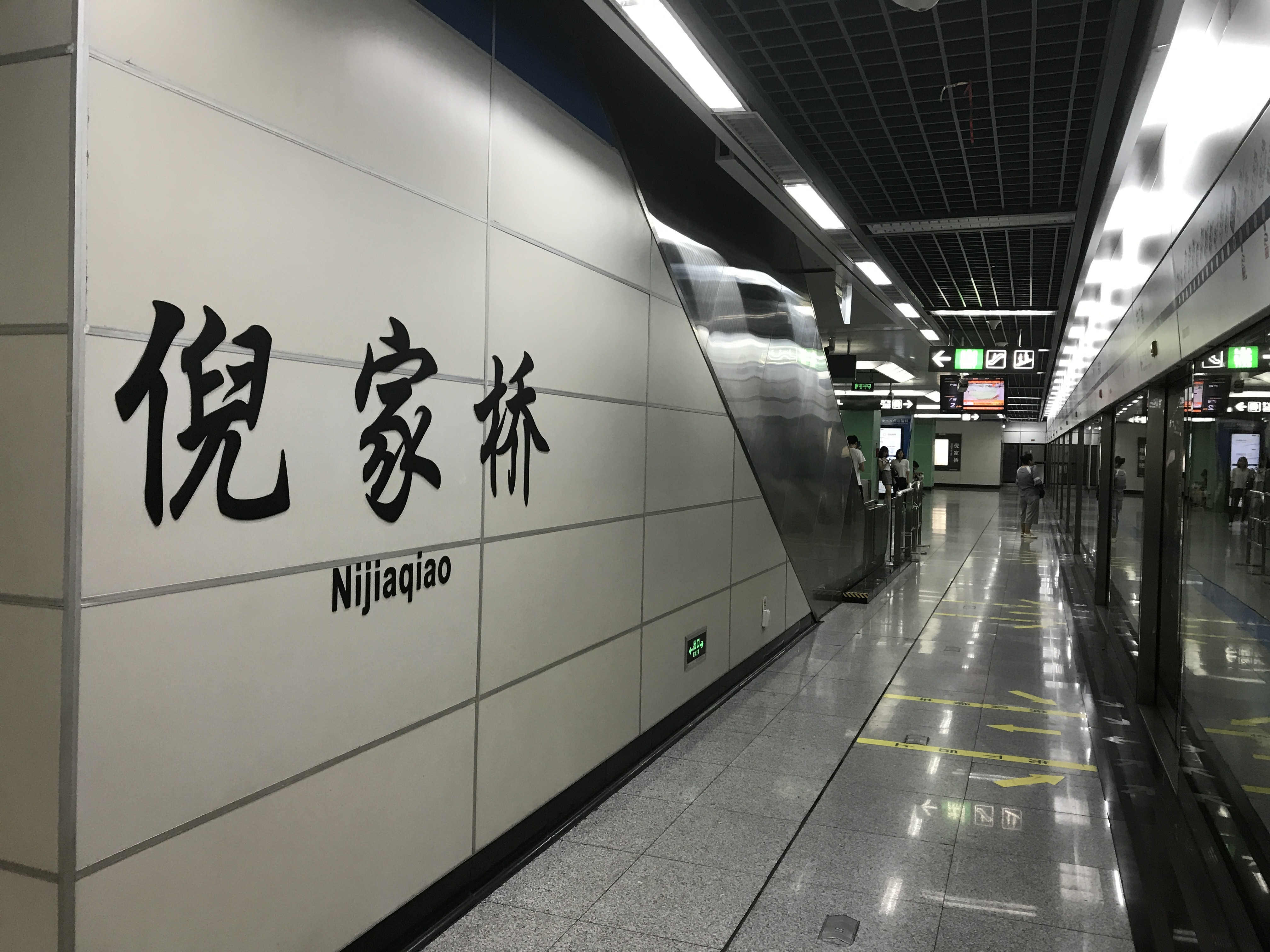 Platform of Nijiaqiao Station, Chengdu Metro